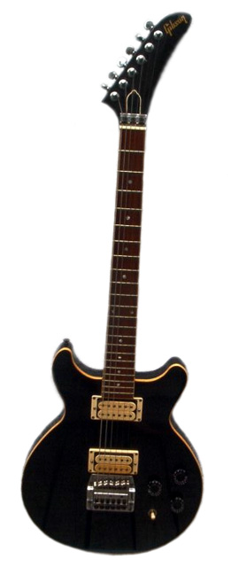 Picture of Gibson Spirit XPL with two humbuckers.